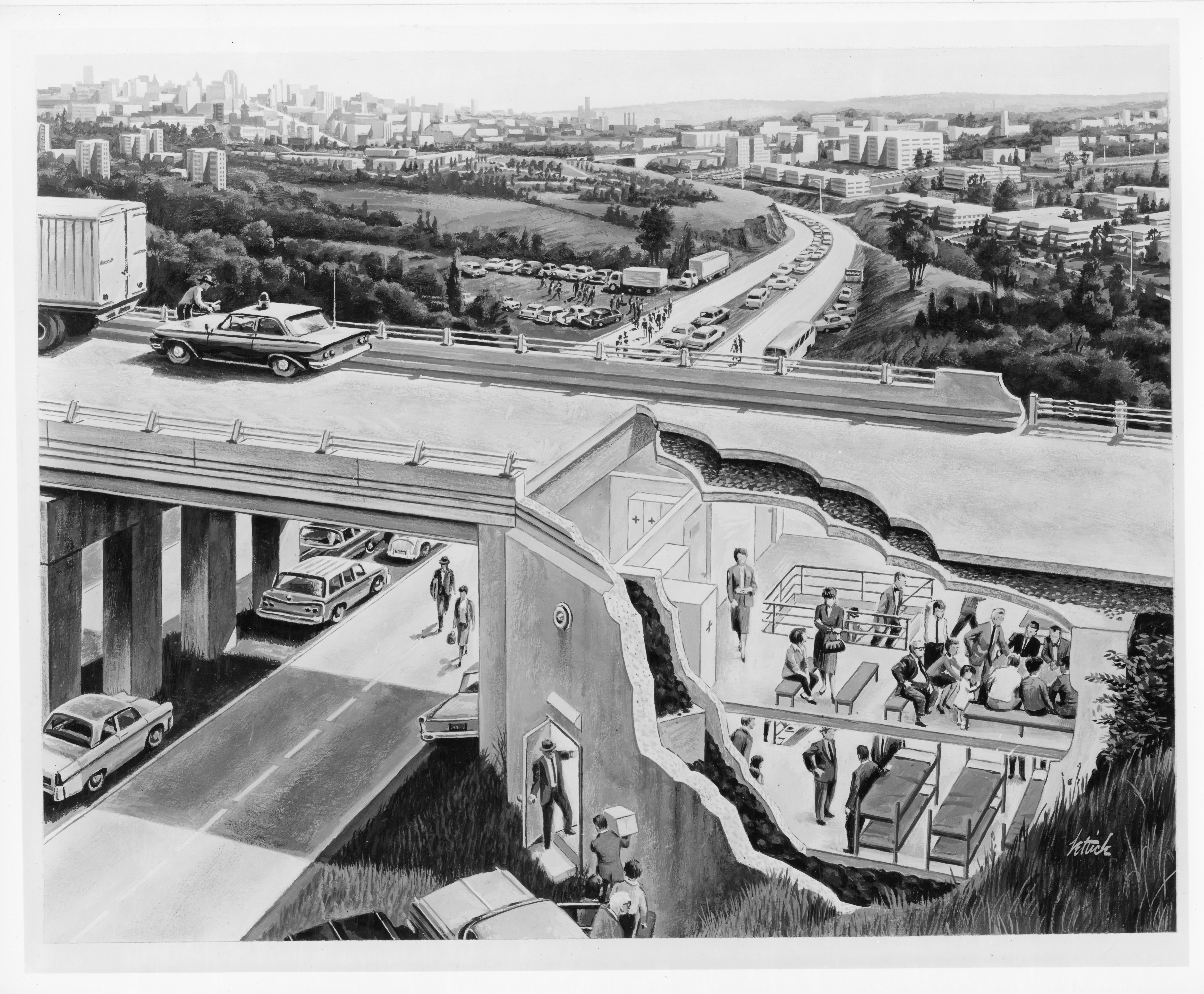 Black and white drawing of a bomb shelter under a highway.The drawing is a cutaway in which one can see a two-story structure with beds on the lower level. There are cars parked on the highway and people entering the structure where other people dressed in 1950s style clothes are present. In the background is a suburban/urban American scene.